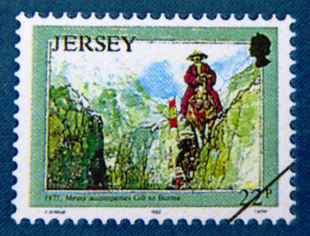 This is one of six stamps issued by Jersey to commemorate the 150th birthday of General William Mesny in 1999.